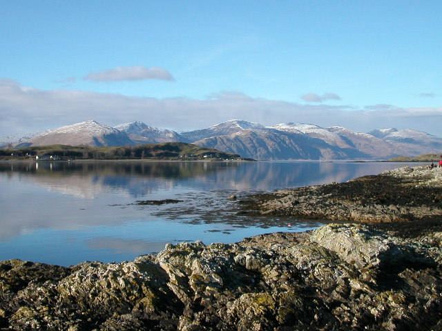 Lismore Island and the hills of Kingairloch beyond. The ferry runs from Port Appin on the extreme right of the picture.